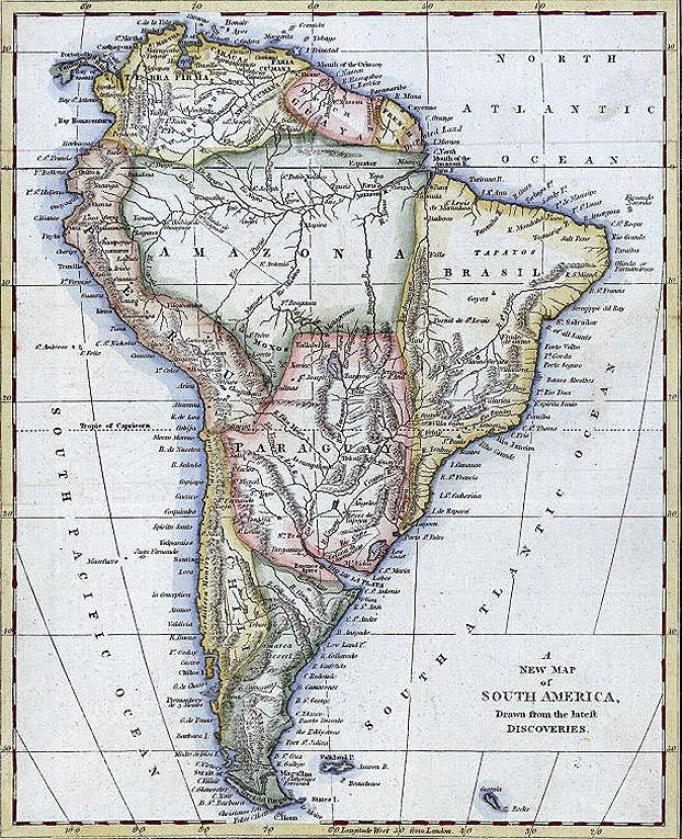 A New Map of South America Drawn from the latest Discoveries